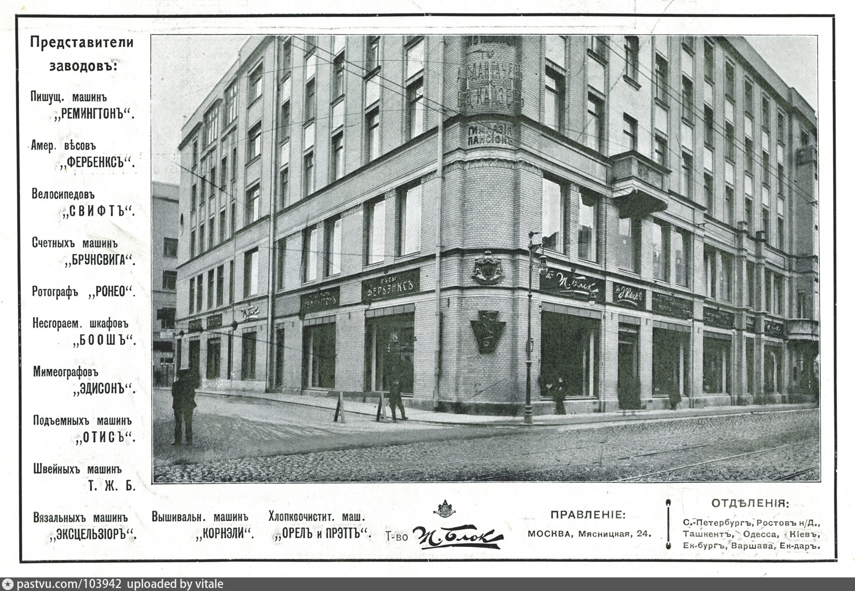 Apartment house Stroganov School.